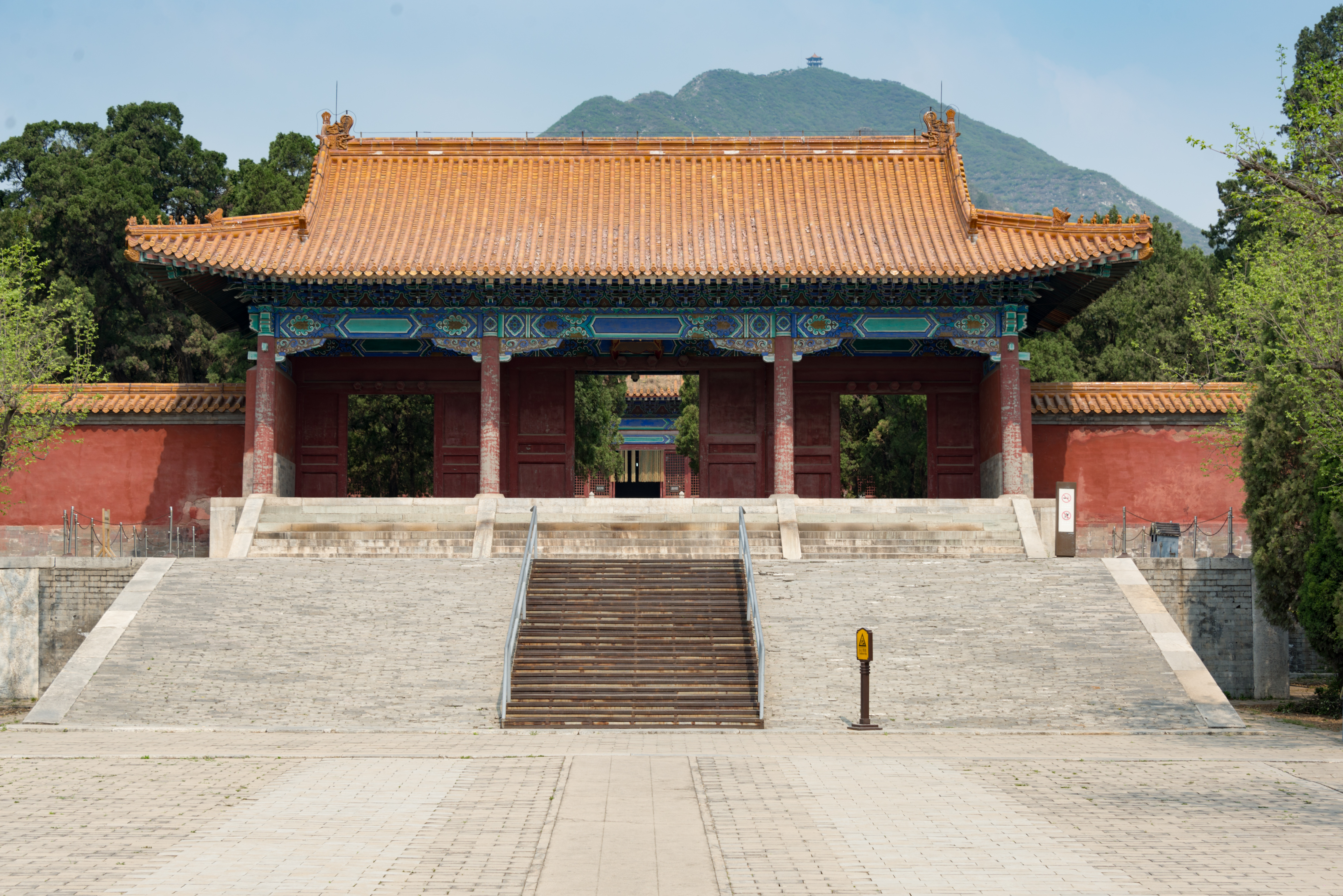 Tomb of Ming Dynasty